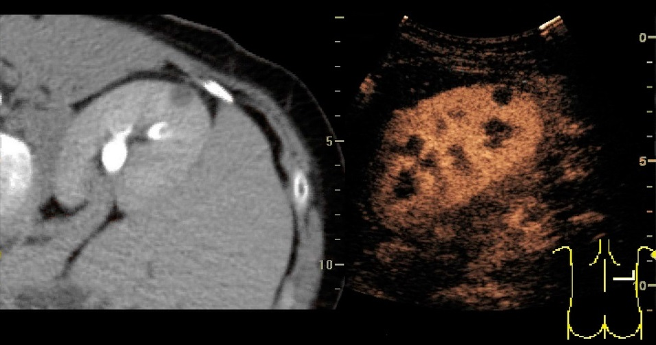 Unspecific cortical lesion on CT (left) is confirmed cystic and benign with contrast-enhanced ultrasound (CEUS) using image fusion (right). For context, see Renal ultrasonography